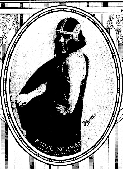 Karyl Norman on the cover of the New York Clipper, 1921